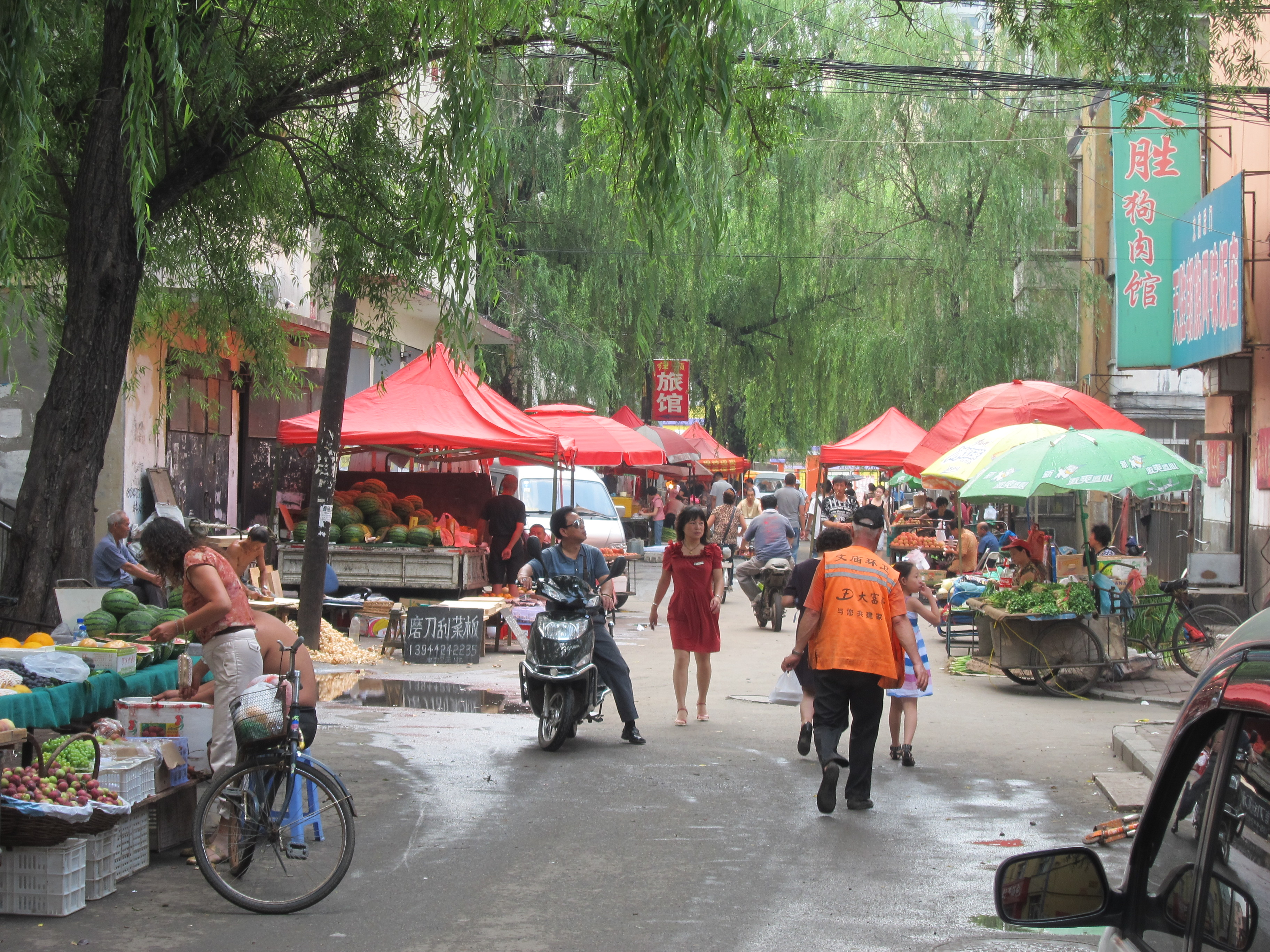 A view of hutong life in downtown Jilin City. Summer 2011 Author: Noel Muller.